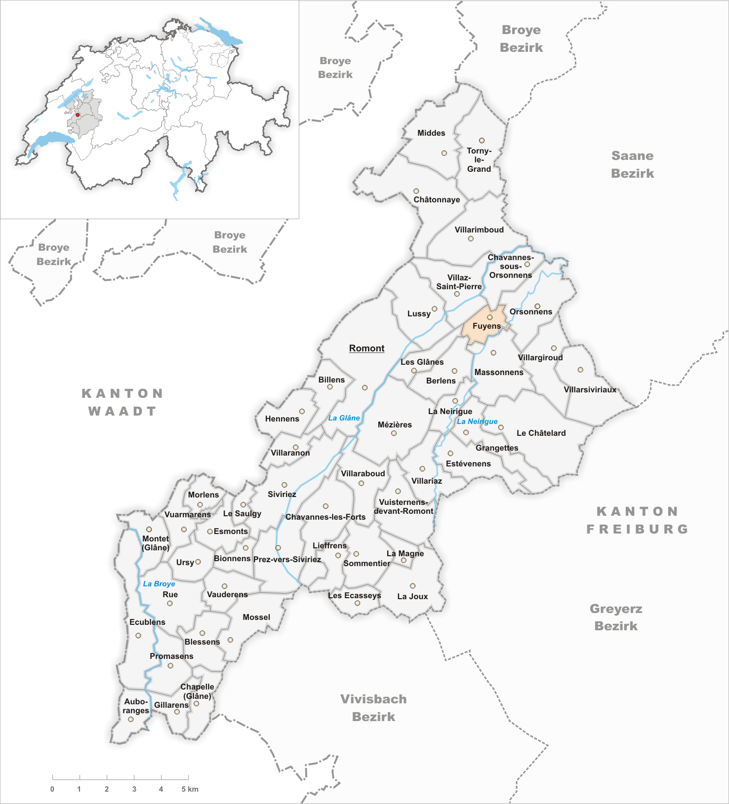 Municipality Fuyens Artist: Tschubby